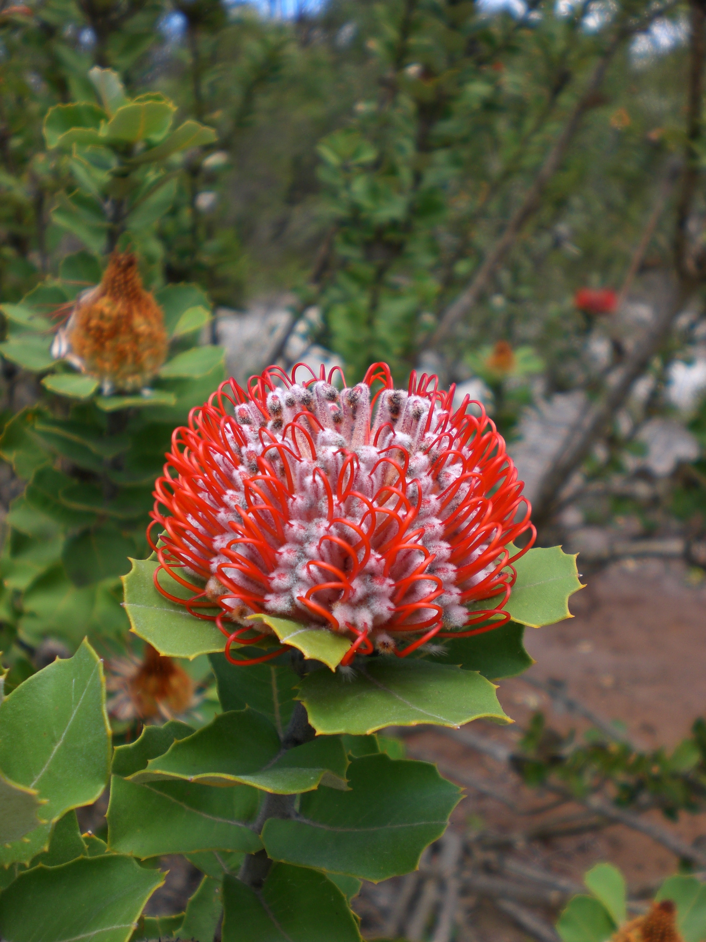 The plant species Banksia coccinea, an occurrence near Frenchman Bay Road, Little Grove, Albany.